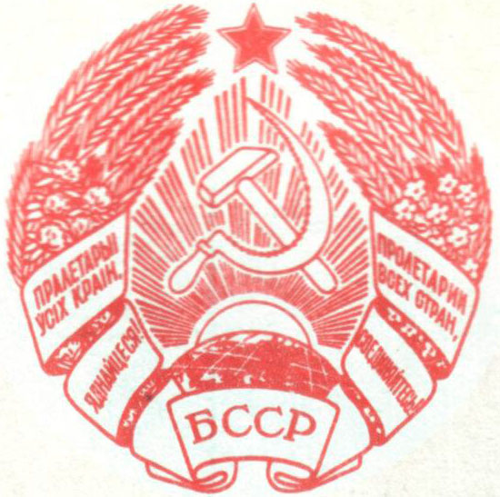 Cropped from